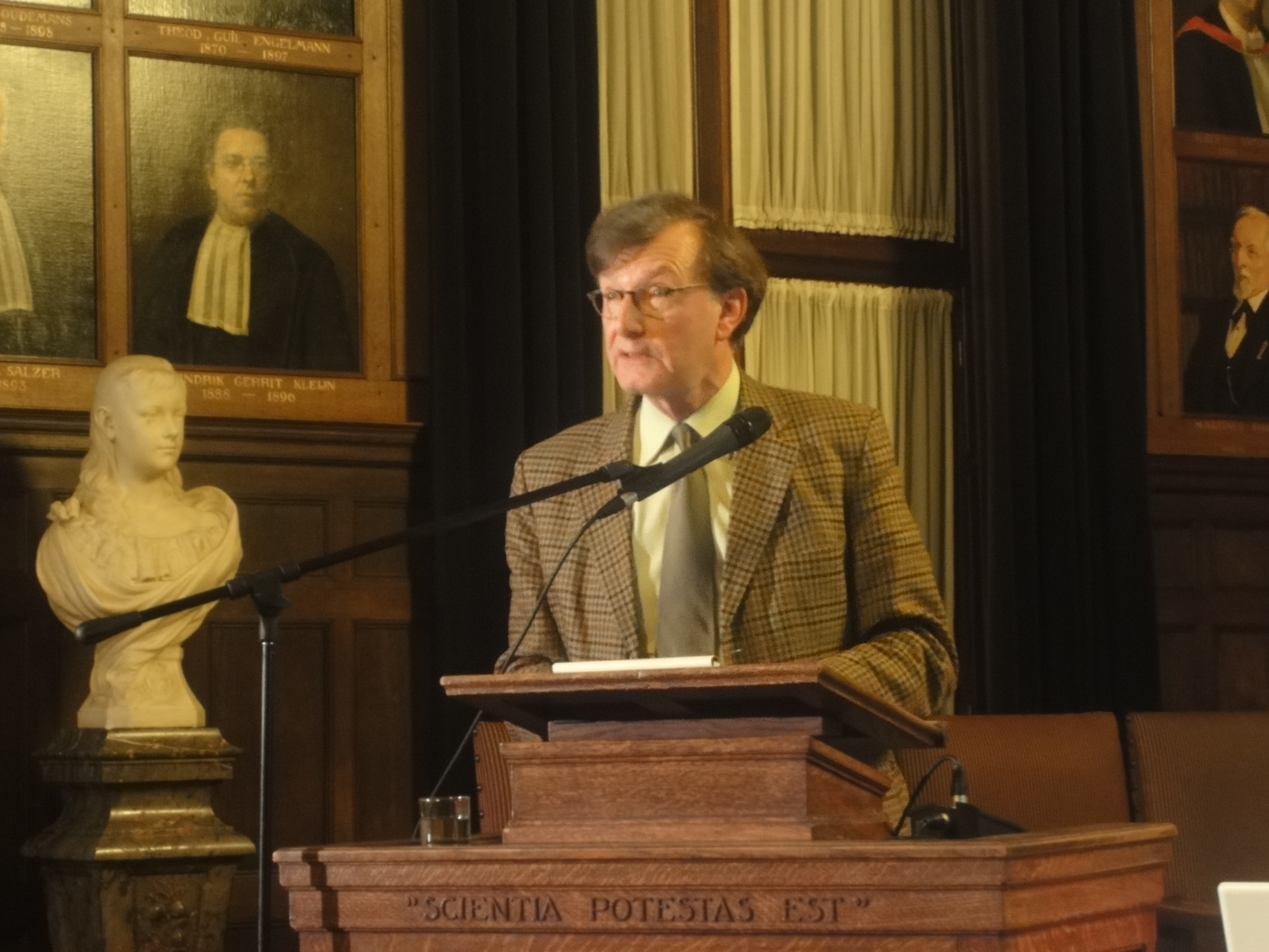 Klaas van Egmond giving a lecture on Planet People and Profit at the Studium Generale of Utrecht University Personality rights warning Although this work is freely licensed or in the public domain, the person(s) shown may have rights that legally restrict certain re-uses unless those depicted consent to such uses. In these cases, a model release or other evidence of consent could protect you from infringement claims.